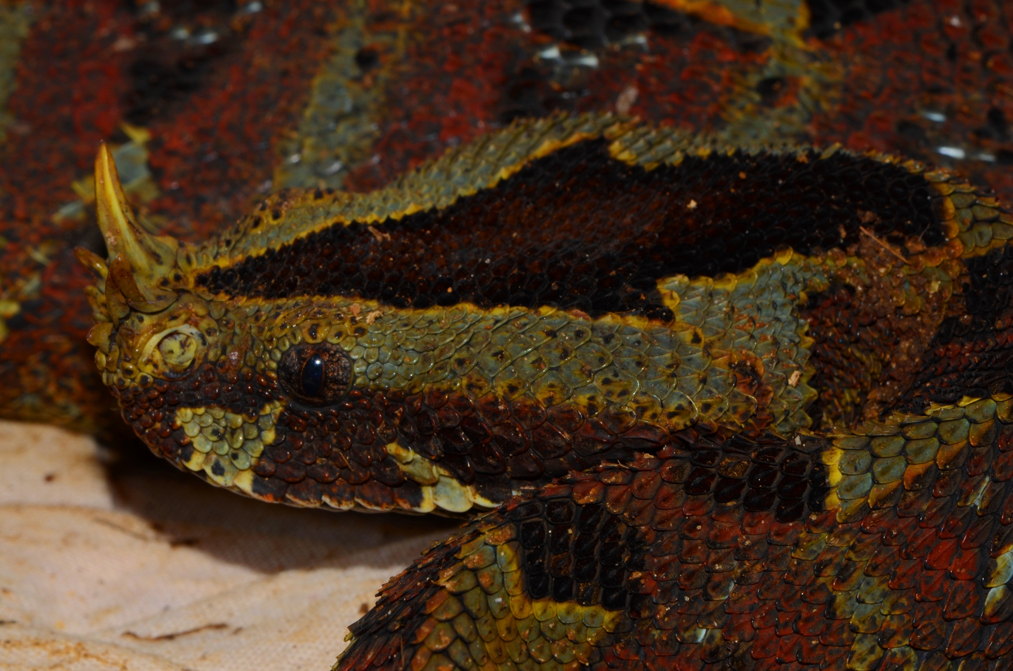 Rhinoceros Viper (Bitis nasicornis)